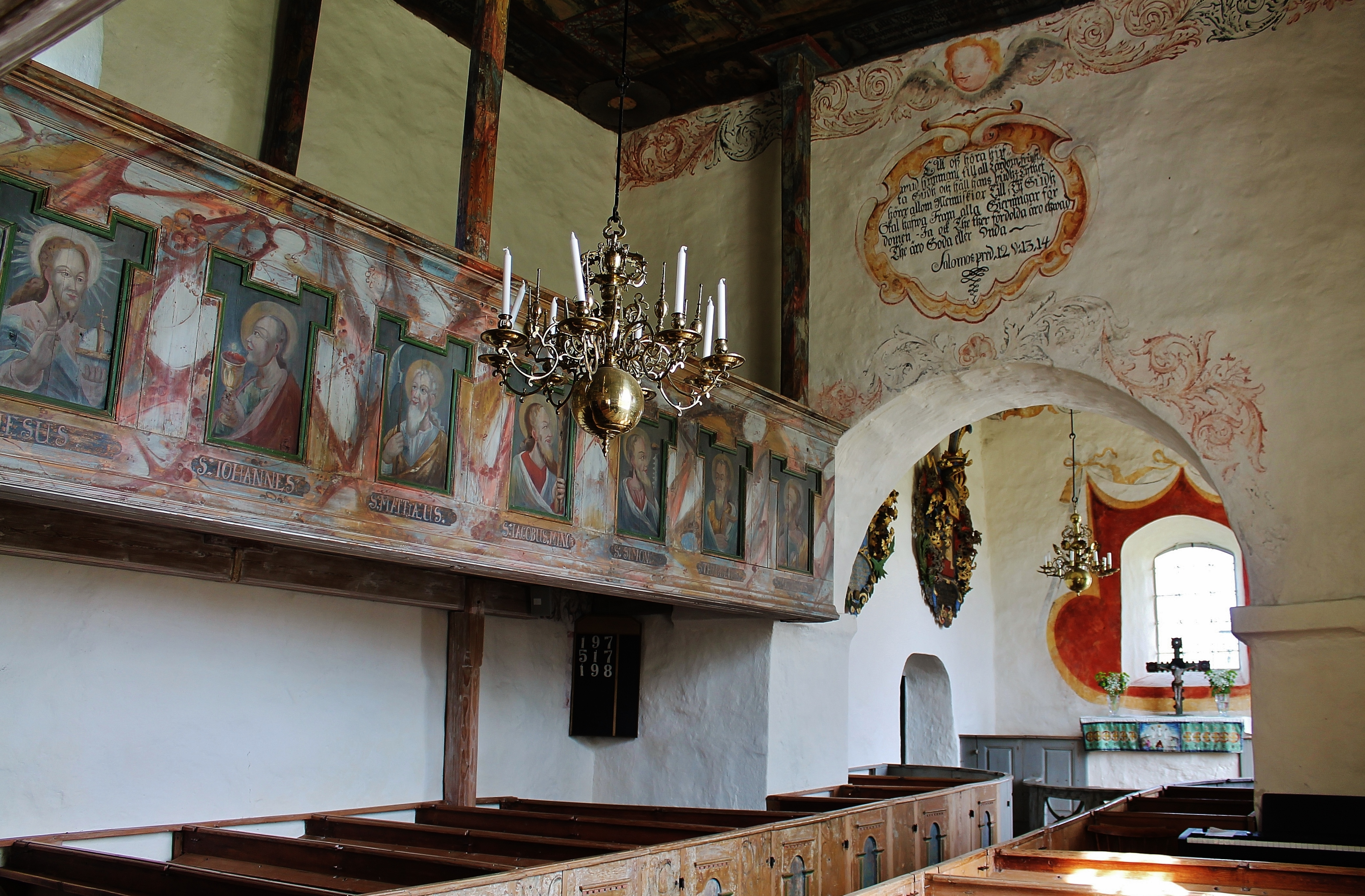 Jät Old Church.Interior looking east.